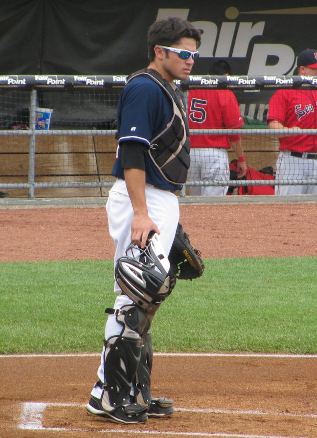 New Hampshire Fisher Cats catcher, Travis d'Arnaud.